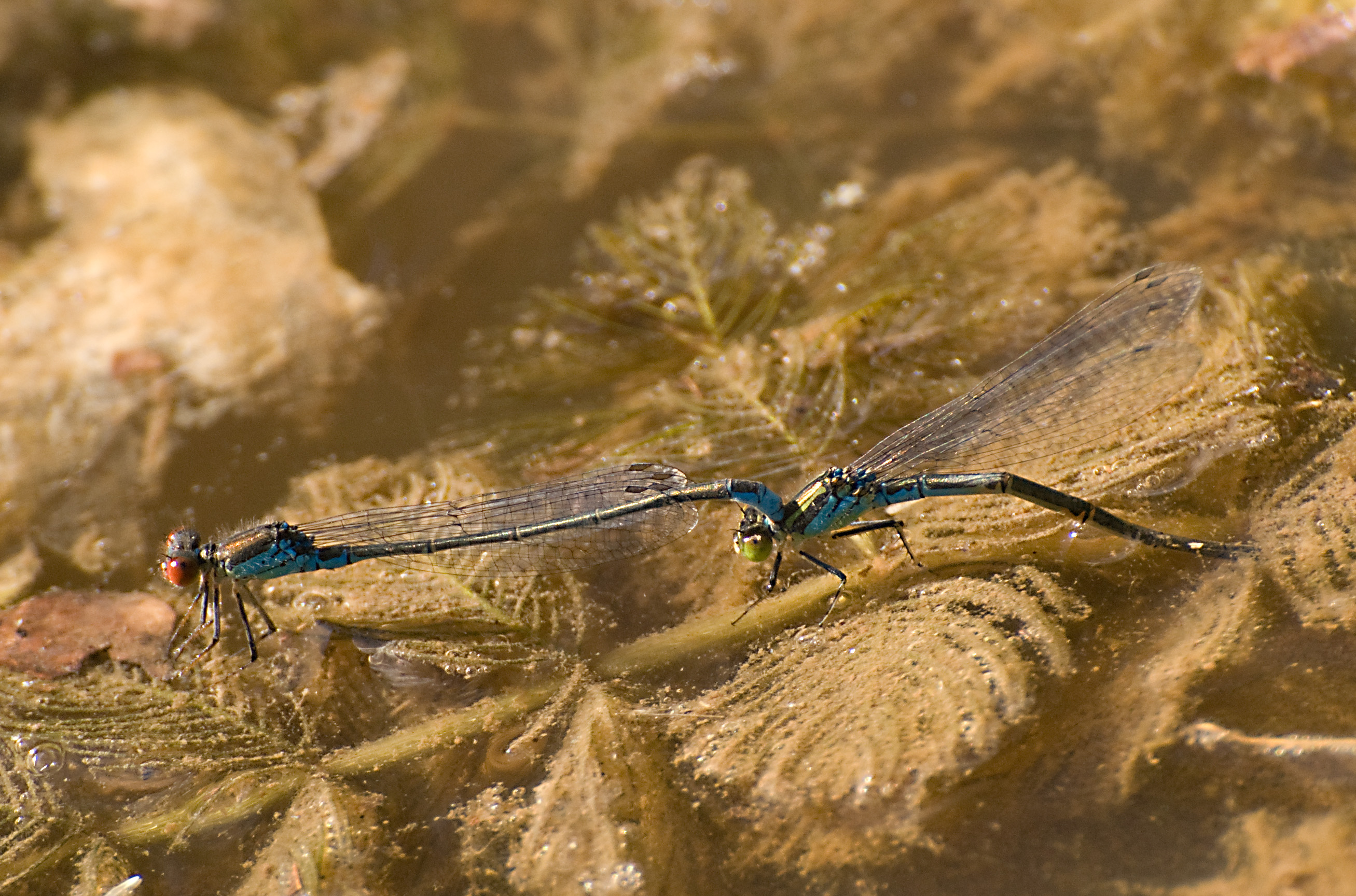 Small Red-eyed Damselflies (forest pond, Stuttgart, Germany). Thanks to Fice for help with the identification.